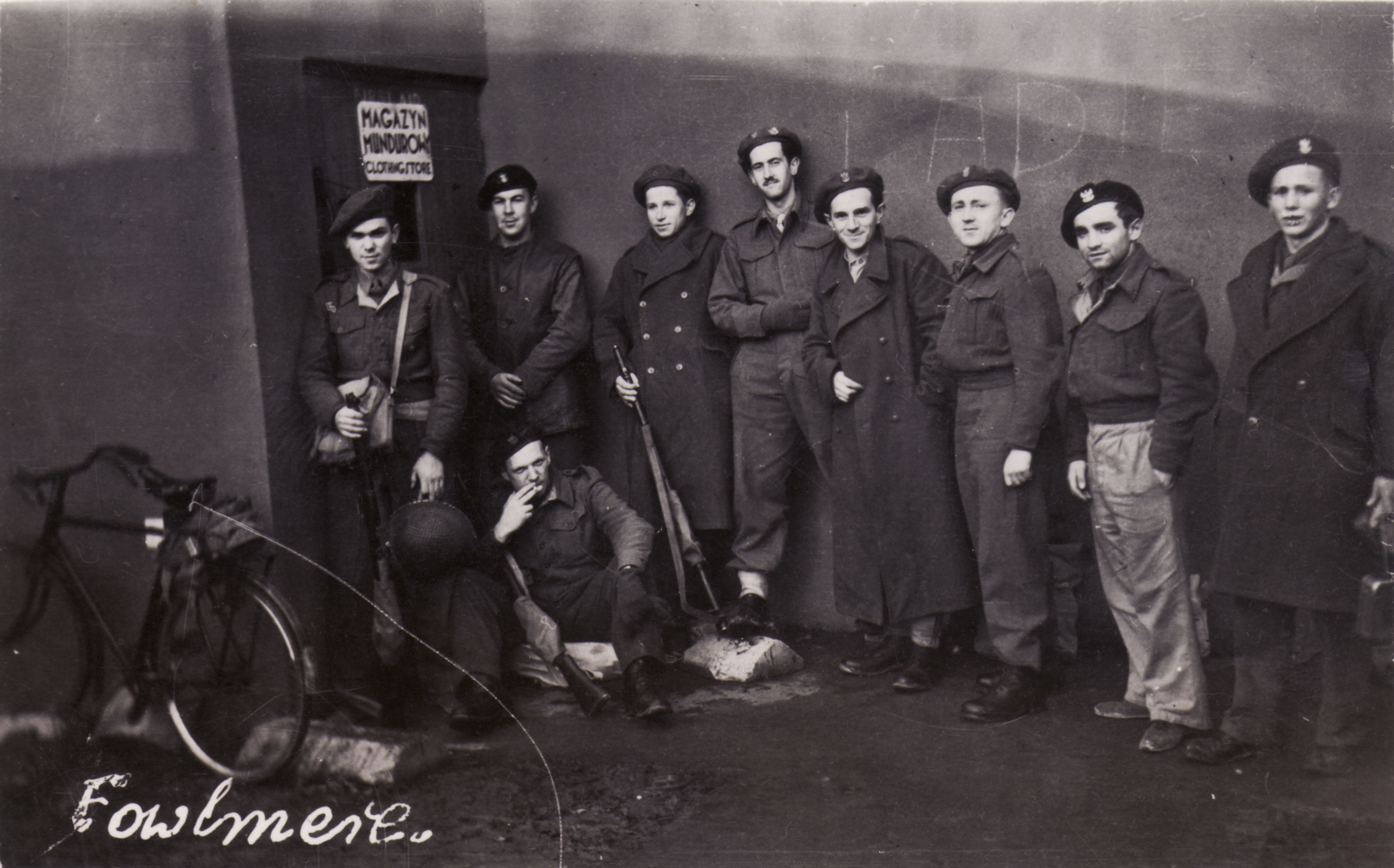 Demobilization of Polish II Corps soldiers in Fowlmere, England.